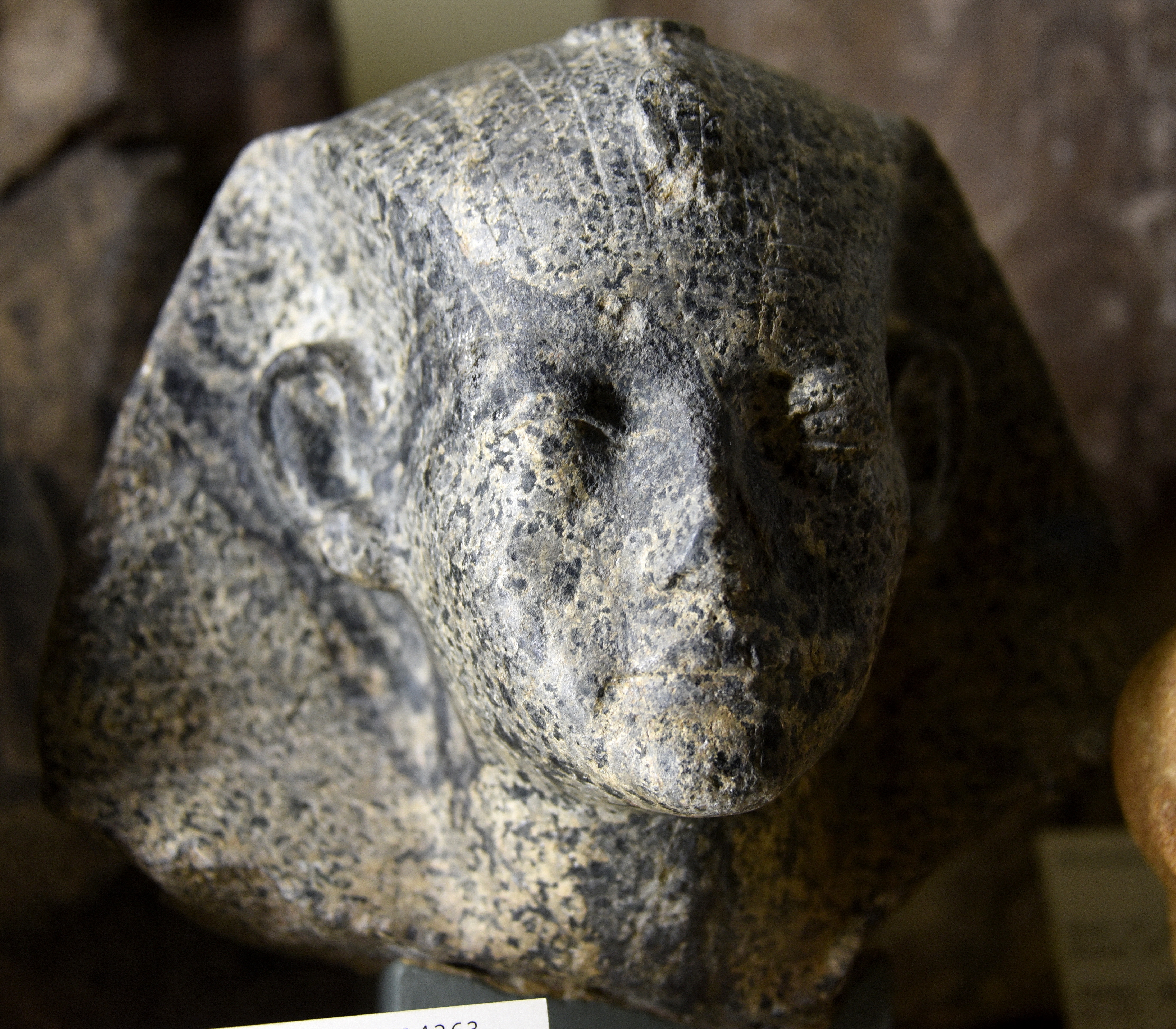 Head of Amenemhat (Ammenemes) III. Mottled diorite, half life-size. The Petrie Museum of Egyptian Archaeology, London. With thanks to the Petrie Museum of Egyptian Archaeology, UCL.